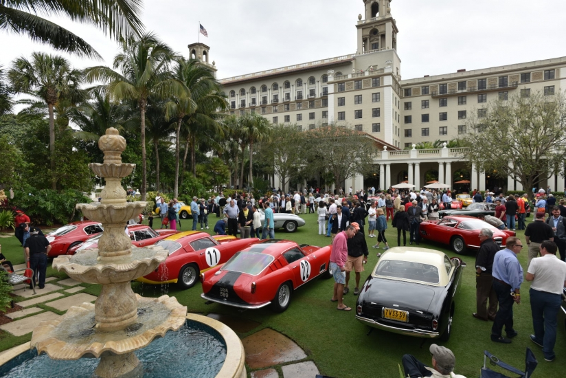 One section of the massive display of Ferraris during the Concorso di Eleganza at The Breakers, Palm Beach at Cavallino Classic 24, January, 2015.